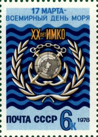 USSR stamp of 1978. World Maritime Day, # Michel 4727, # Scott 4654.Bad quality. Needs rescanning.